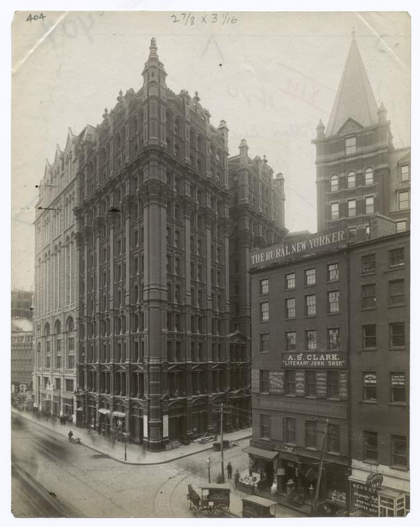 Photograph of the new Potter Building circa 1886; to the right is 34 Park Row, where signs show the tenants include The Rural New Yorker, and A.S. Clark, a bookseller. The Rural New York moved to 41 Park Row by 1891.